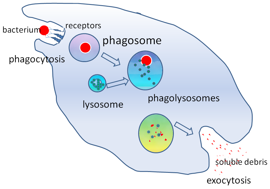 Simplified illustration of the stages of phagocytosis